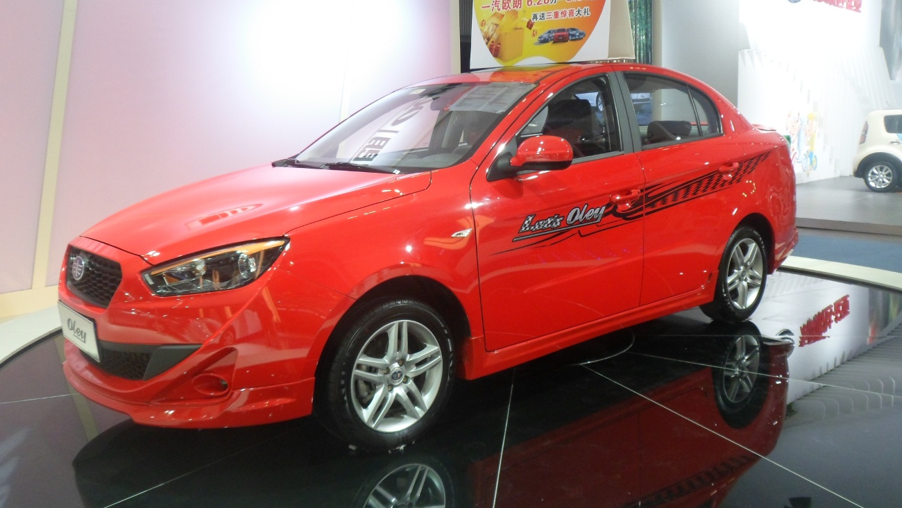 FAW Oley sedan photographed at the 2012 Chongqing Auto Show, Chongqing, China.